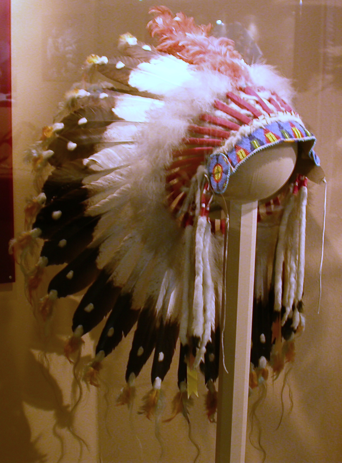 Westfälisches Museum für Naturkunde (Münster), feathered headdress of the Sioux